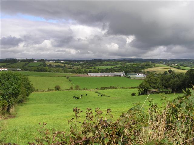 Aughafad Townland. The dark clouds are a sign that the rain is not very far waay.